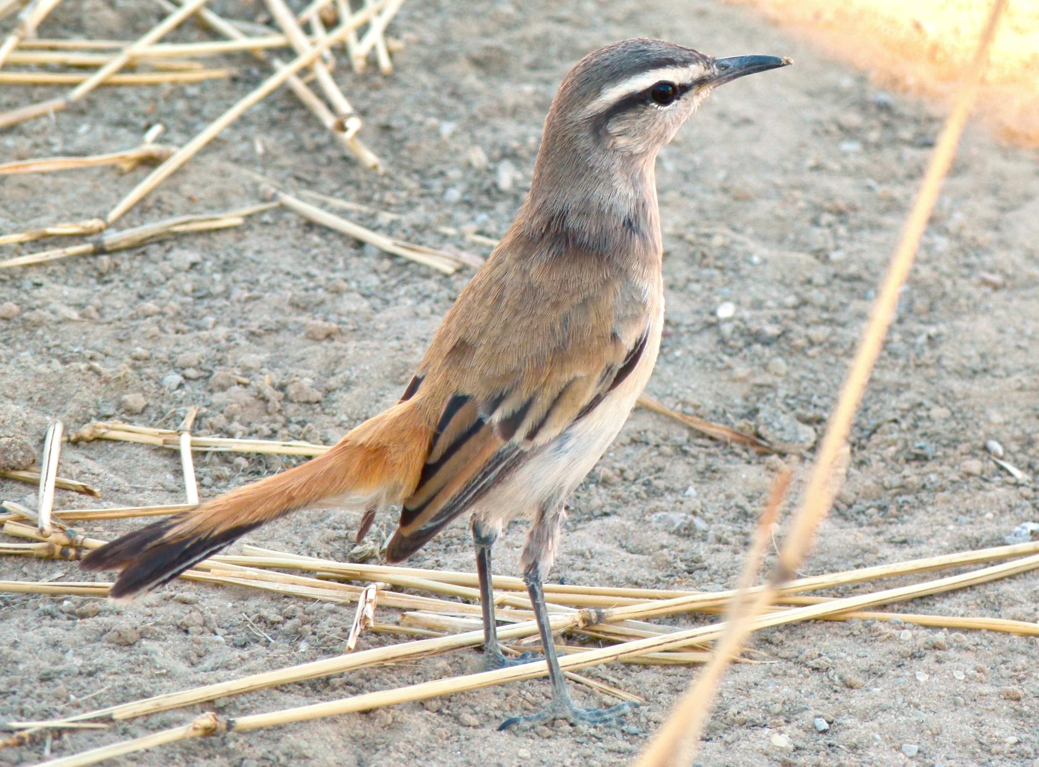 Cubitje Quap Waterhole, Kgalagadi Transfrontier Park, SOUTH AFRICA